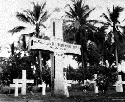 Milne Bay, New Guinea, 1943-04-14. The grave of Squadron Leader P.B. Turnbull, DFC. in the Milne Bay War Cemetery. Squadron Leader Turnbull, the Commanding Officer of No 76 Squadron, was killed when his aircraft crashed during a strafing run against Japanese forces during the Battle of Milne Bay. As a tribute to his memory, No 3 Airstrip at Milne Bay was renamed 'Turnbull Field'.